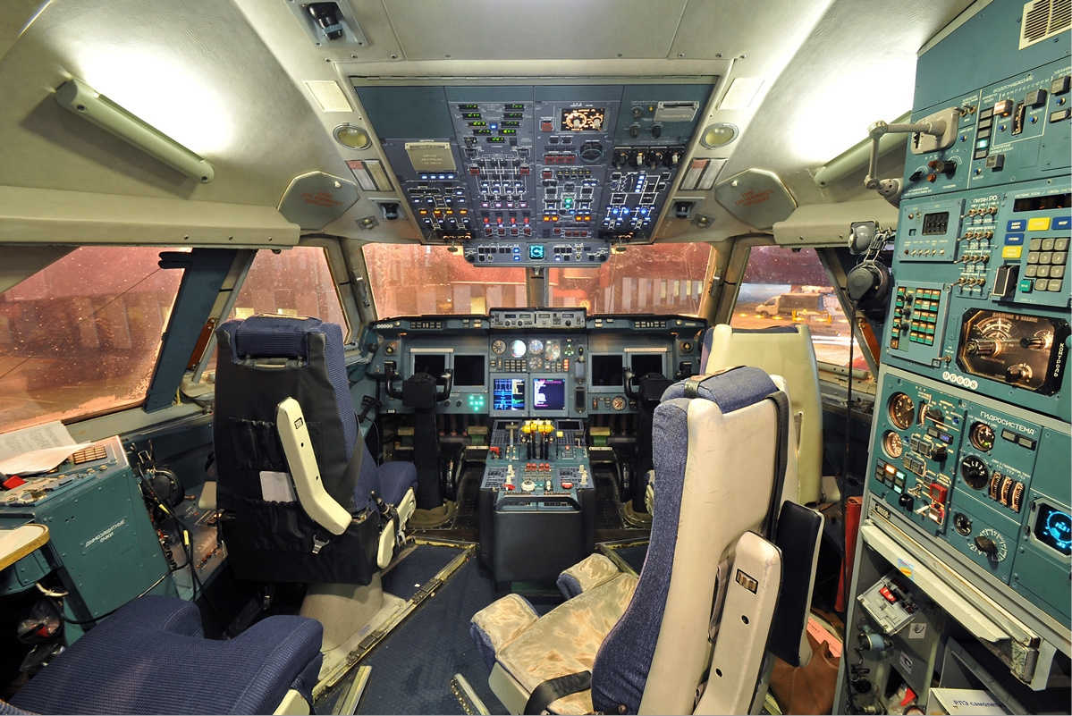 Aeroflot Ilyushin Il-96-300 cockpit